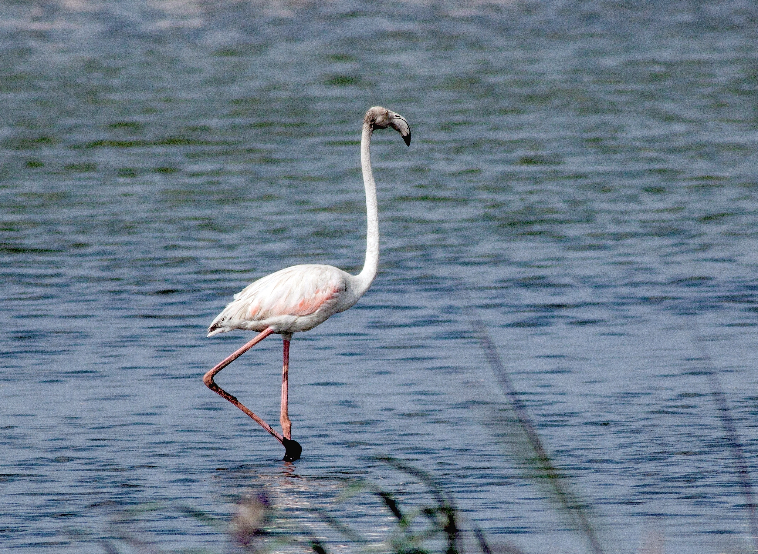 Graeter Flamingo Sub-adult, Vasai, Maharashtra, India